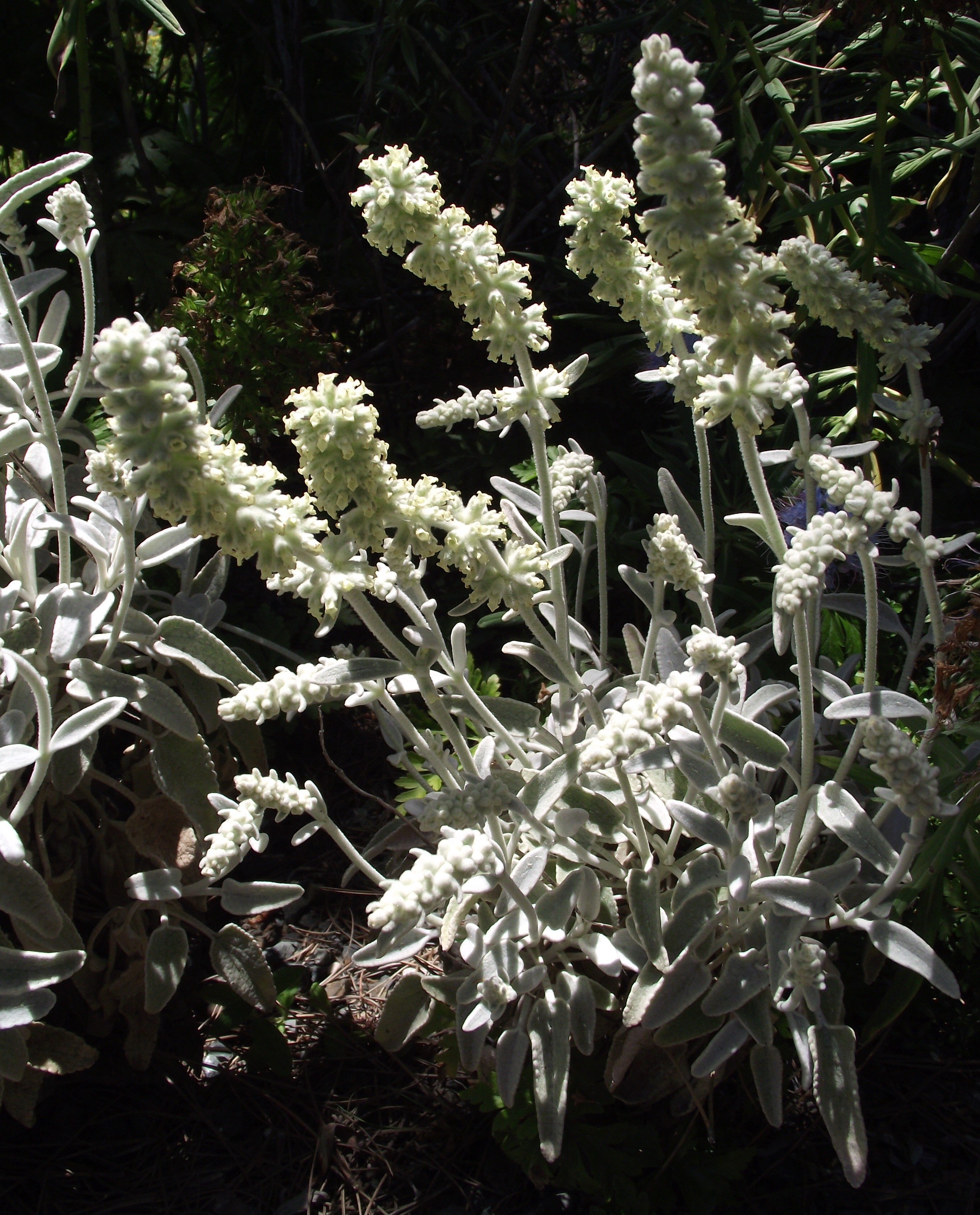 Sideritis dasygnaphala in the UC Botanical Garden, Berkeley, California, USA. Identified by sign.